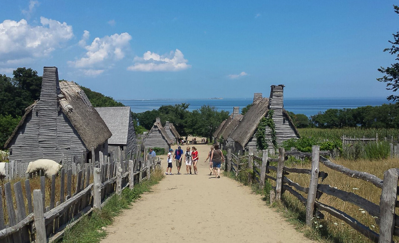 Recreation of Plimoth Plantation at Plymouth, Massachusetts